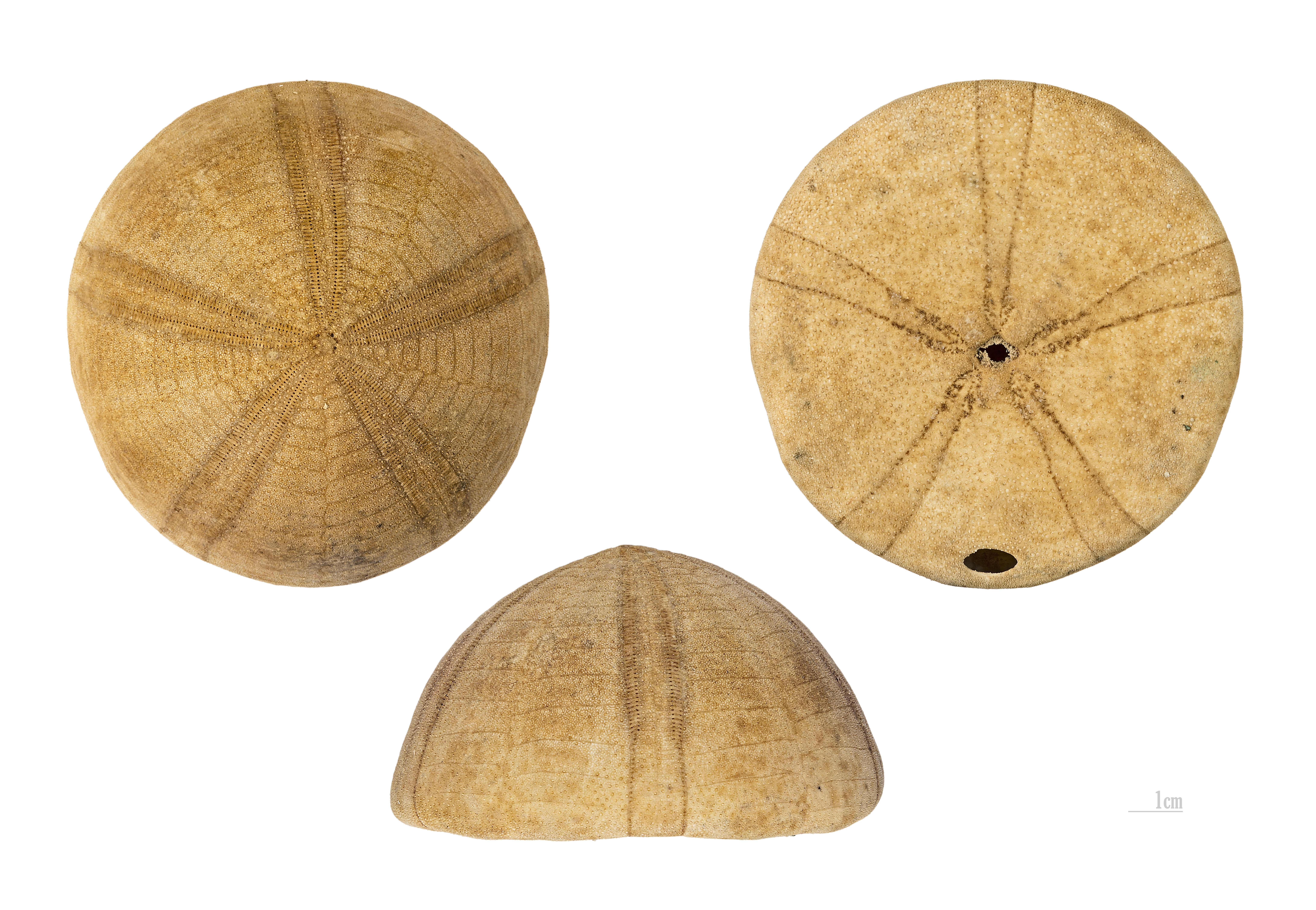 Conolampas diomedeae test.